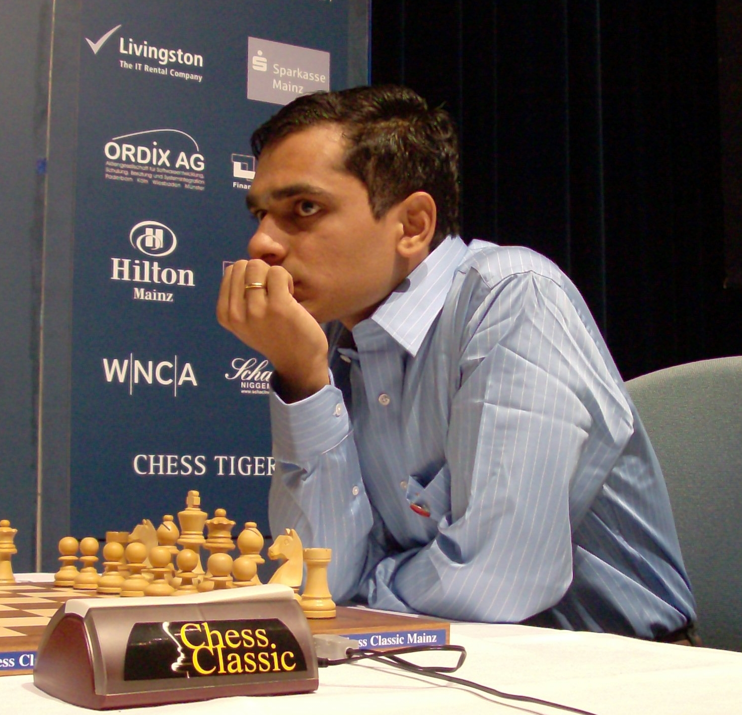 Krishnan Sasikiran, chess grandmaster from India